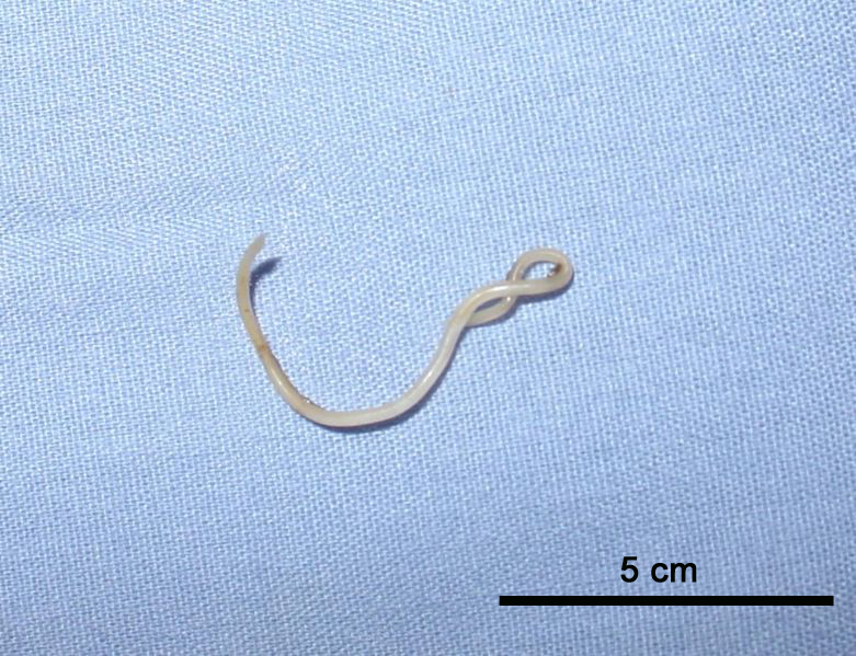 Toxocara canis (canine roundworm) from a puppy.